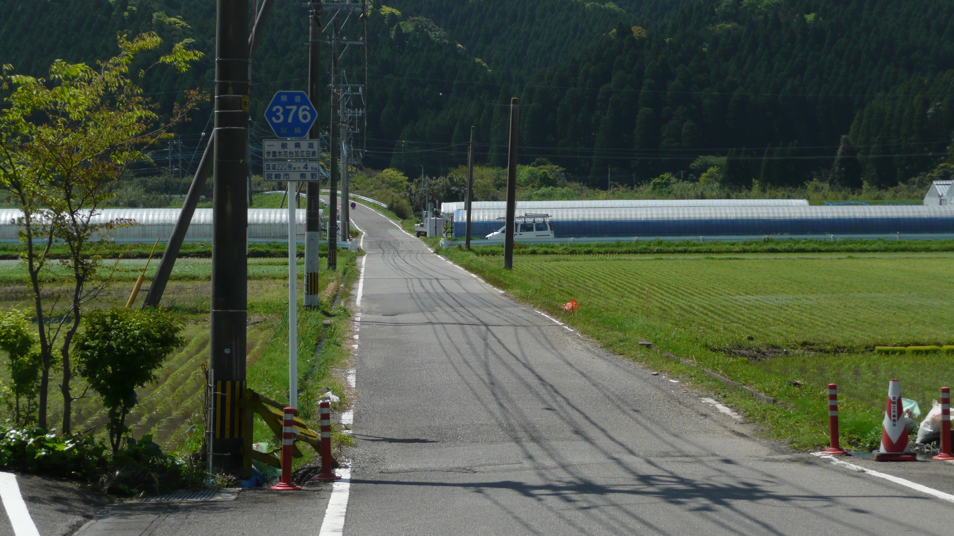 Miyazaki Prefectural Road 376 (Gakuenkibanadai Sakura, Miyazaki City, Japan)